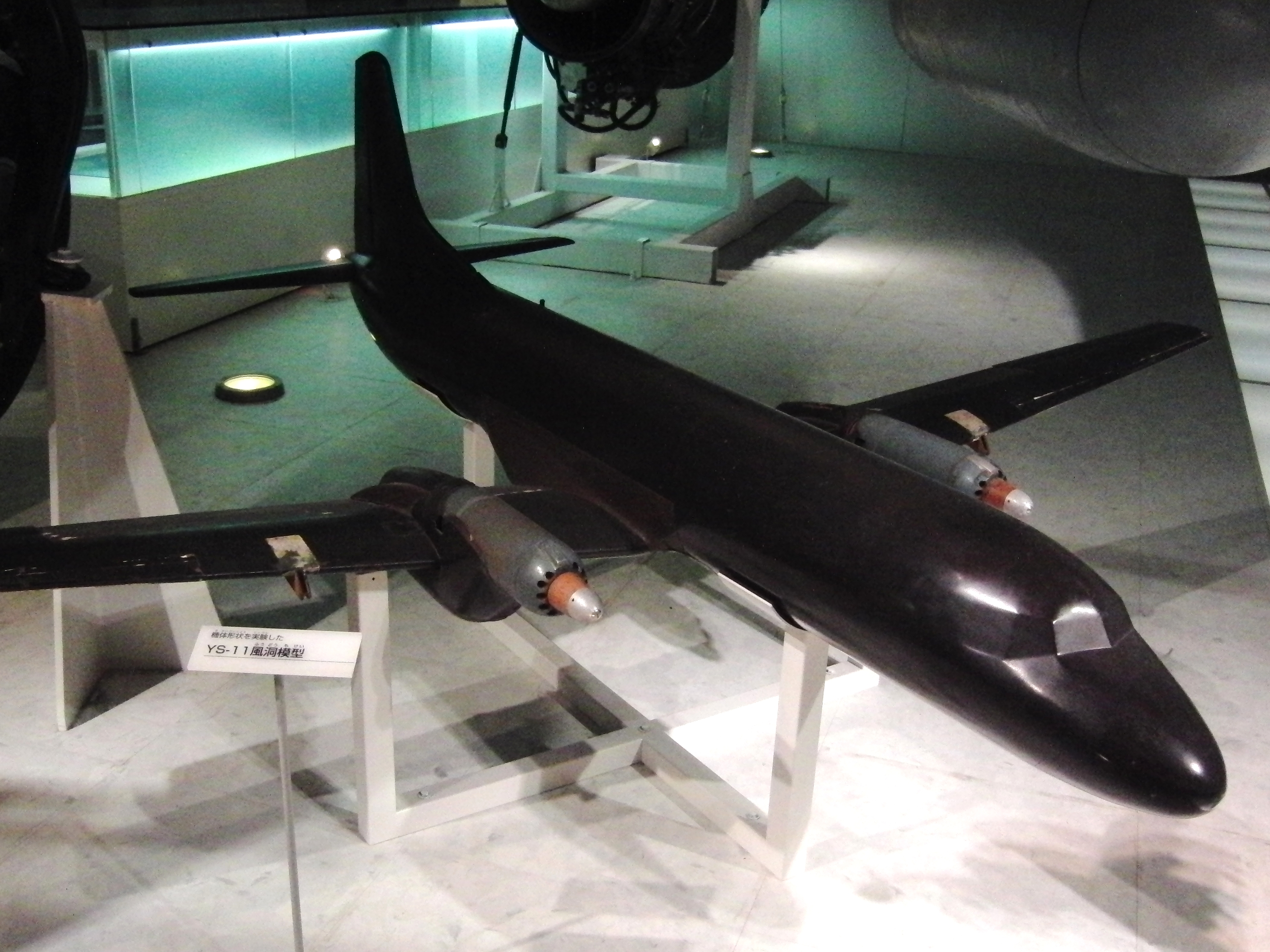 Wind tunnel model of YS-11. Exhibit in the National Museum of Nature and Science, Tokyo, Japan.